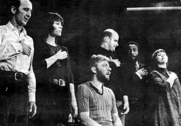 The original cast of the FTA (Fuck The Army) Show in 1971 at the Haymarket Square GI coffeehouse. From left: Gary Goodrow, Jane Fonda, Donald Sutherland, Peter Boyle, Dick Gregory, and Barbara Dane.